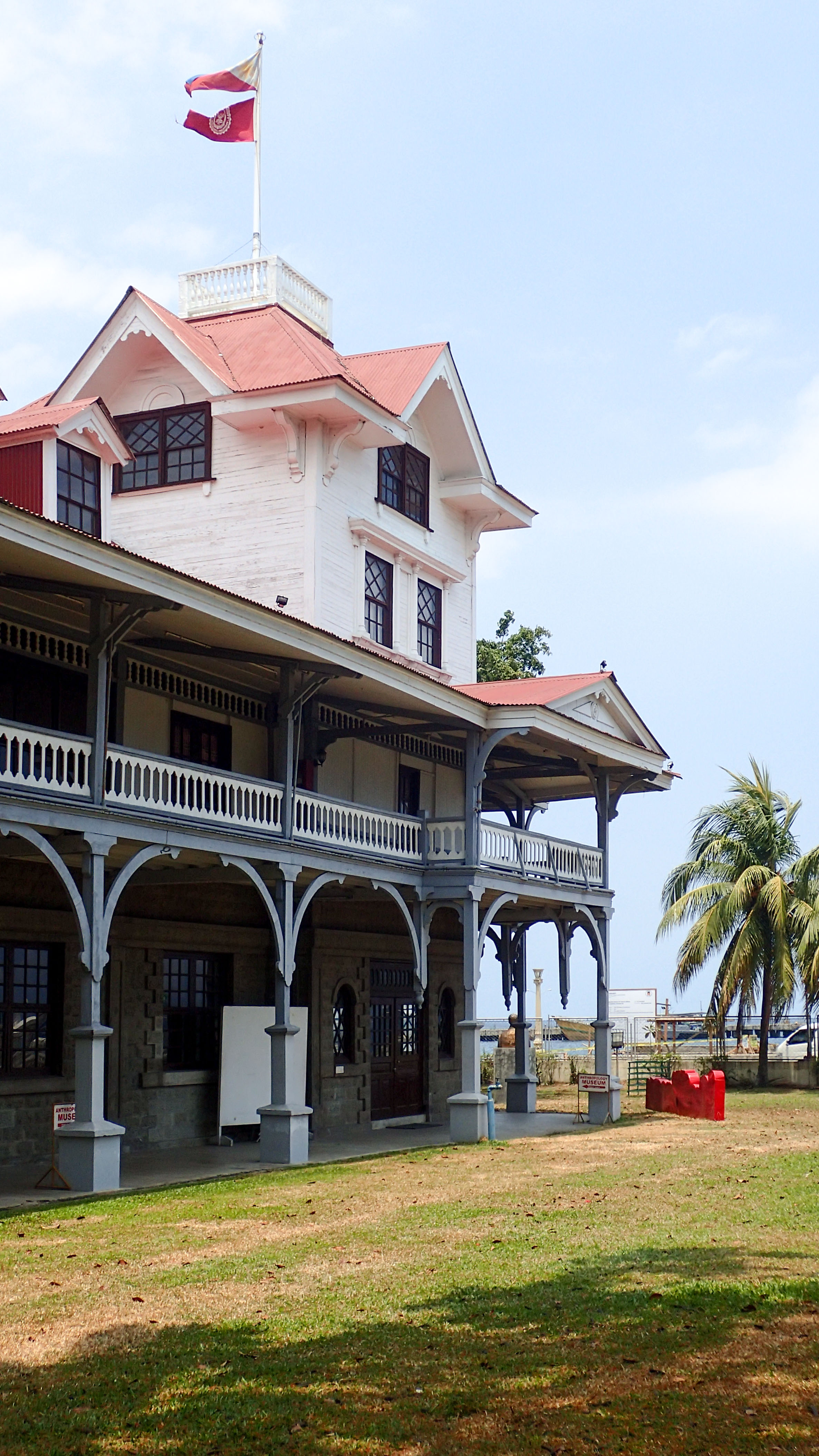 Exterior view of the hall in American Stick style type of architecture which is the oldest standing American structure in the Philippines